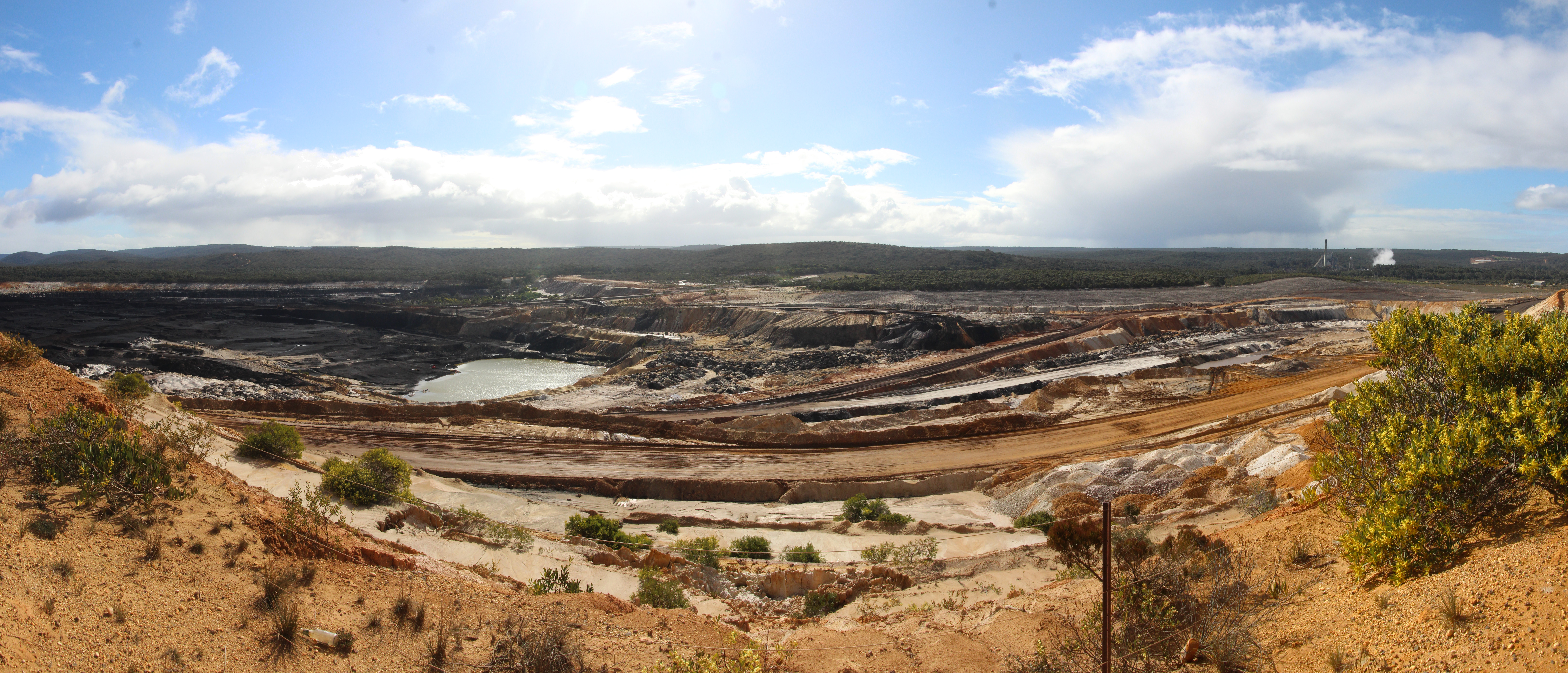 Panorma of the Anglesea open cut brown coal mine and power station